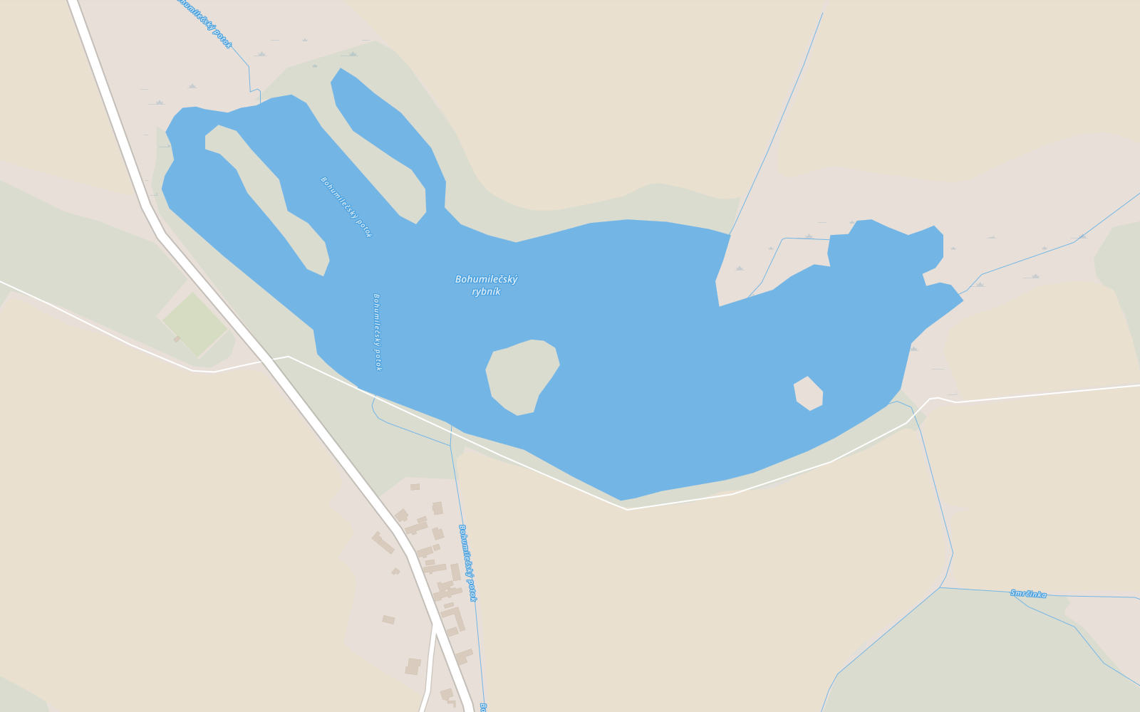 Bohumilečský pond, schema. Pardubice District, the Czech Republic.